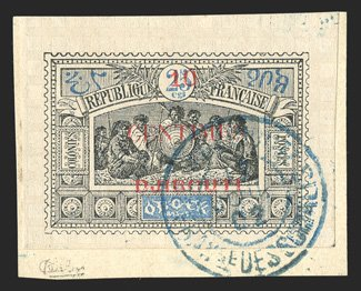 Yvert #31A, 1902 "10/CENTIMES/DJIBOUTI" Ty. II surcharge with small "10" on 25c Black and blue, a fantastic used example of this great rarity, boasting huge margins all around, tied by clear blue 17 July 1902 postmark to small piece, extremely fine and choice; the rarest stamp of Somali Coast, as well as being one of most sought-after rarities of all French Colonies, with only 20 stamps having been surcharged; signed Calves and Roumet and accompanied by 2007 Roumet certificate (Scott #33D; $25,000.00).